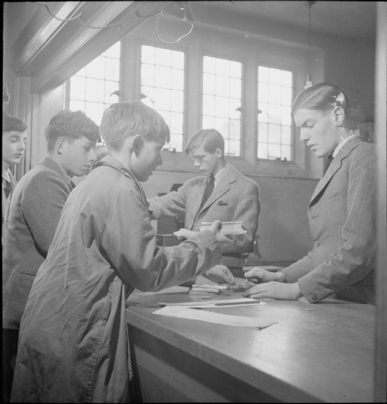 Catholic Public School- Everyday Life at Ampleforth College, York, England, UK, 1943 Boys at Ampleforth College buy sweets and chocolate from the school tuck shop. The tuck shop is run supervised by boys from the upper school, who are seen here on the right. A customer from the lower school buys some bars of cream tablet, as the older boys collect the money and mark off the ration coupons.